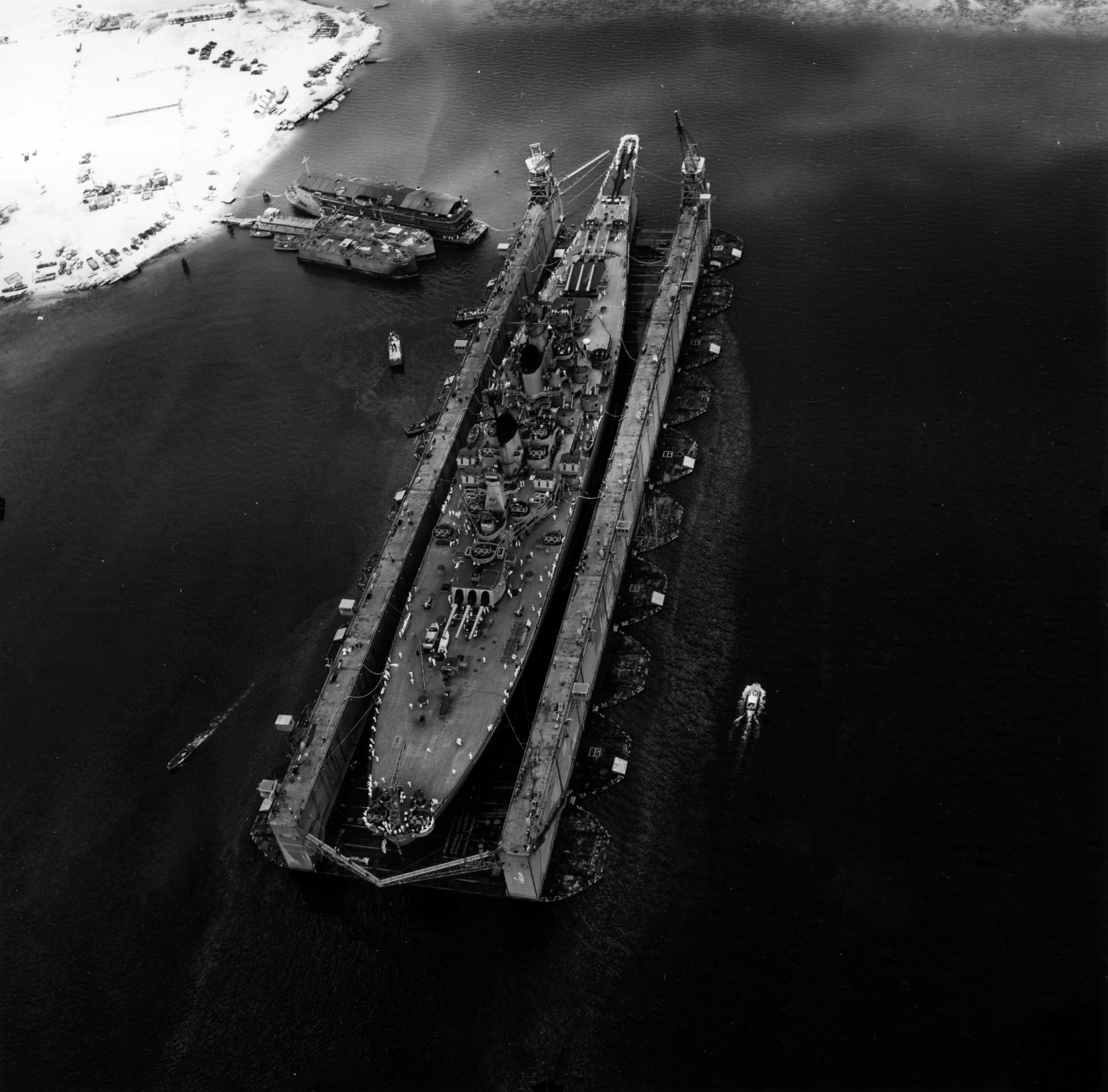 The U.S. Navy battleship USS Wisconsin (BB-64) in Auxiliary Drydock AFDB-1, April 1952, at Guam.